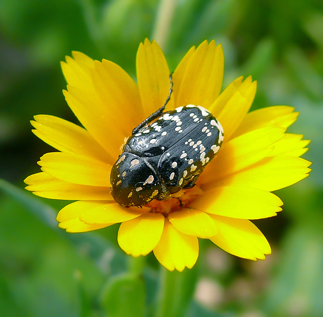 Oxythyrea noemi, Israel